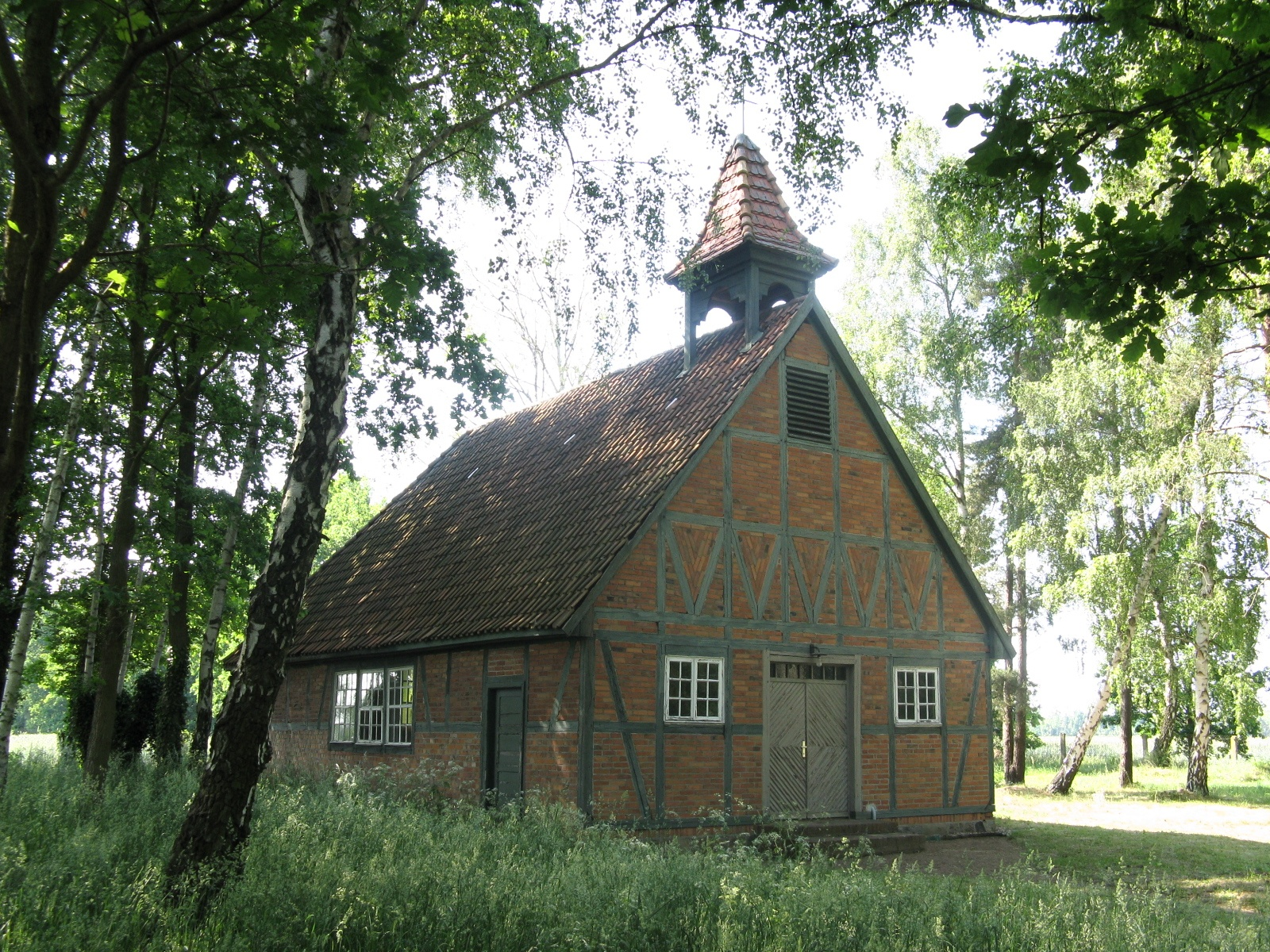 Church of Poltnitz, Mecklenburg-Vorpommern, Germany